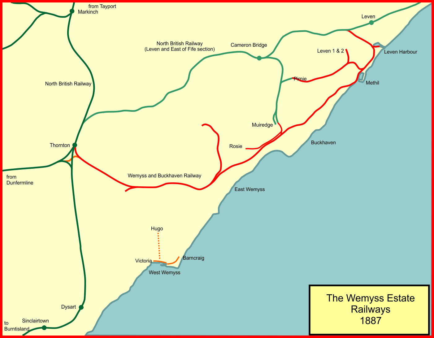 System map of the Wemyss Estate Railways in Fife, Scotland in 1887